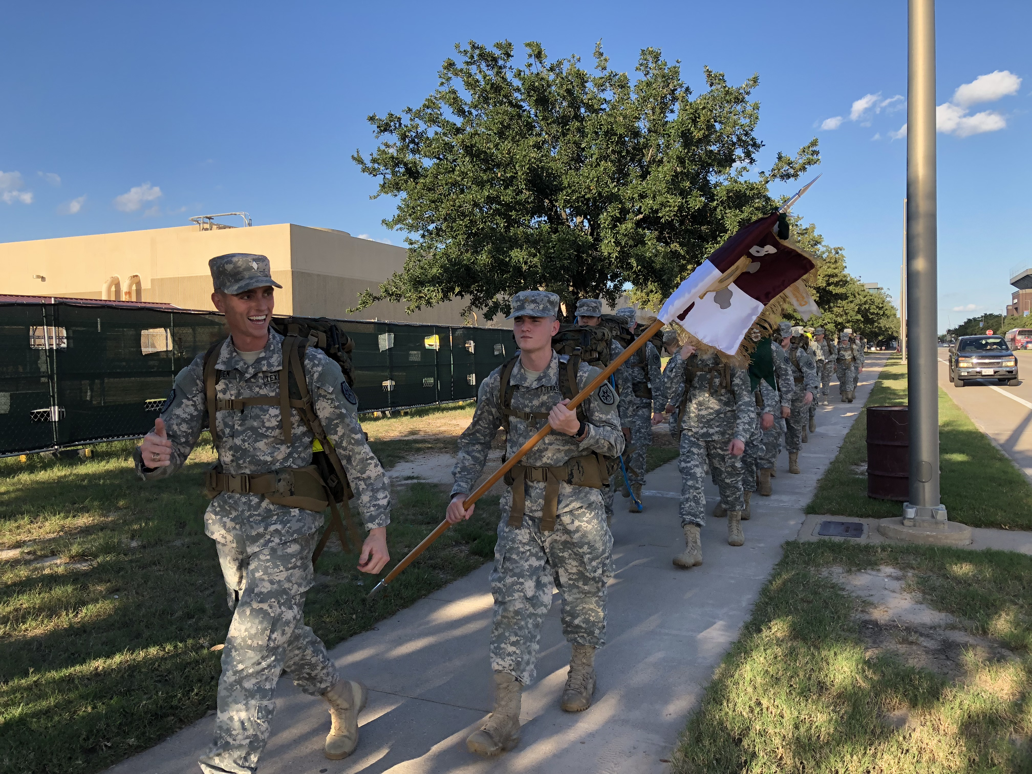 Texas A&M cadets conduct a foot march with loaded rucksacks as part of military training